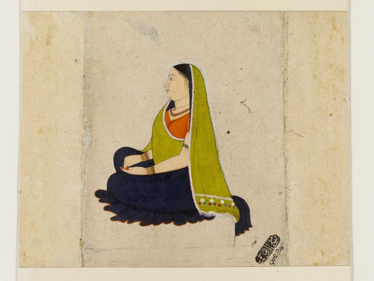 Miniature by Nainsukh (c. 1710-1778), Victoria and Albert Museum, London, ( link) Height: 132 mm, Width: 175 mm, Height: 213 mm cardboard mount onto which object mounted; also absolute maximum dimensions of object, Width: 175 mm cardboard mount onto which object mounted; also absolute maximum dimensions of object